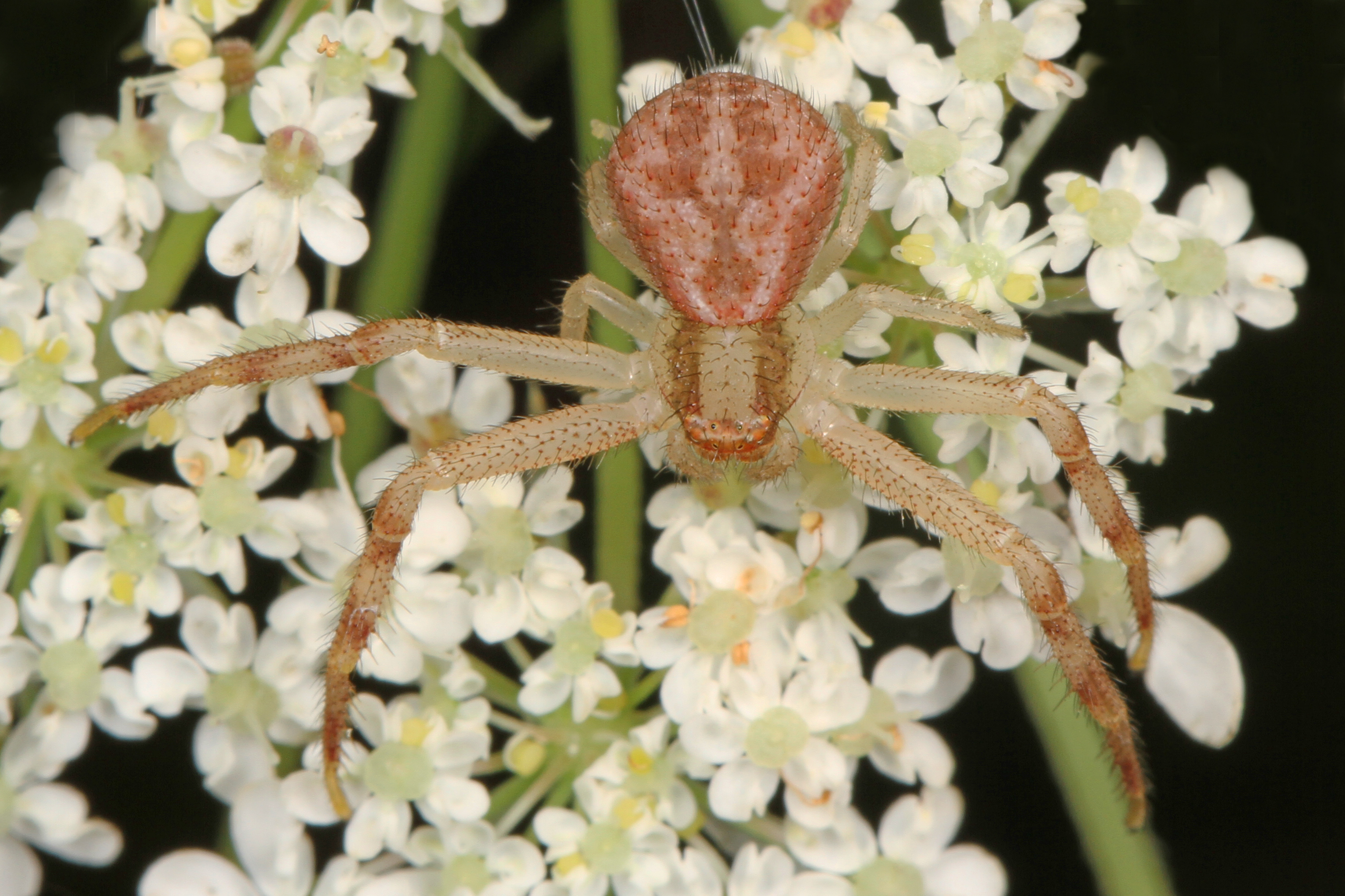 Day 306 - Northern Crab Spider - Mecaphesa asperata, Meadowood Farm SRMA, Mason Neck, Virginia